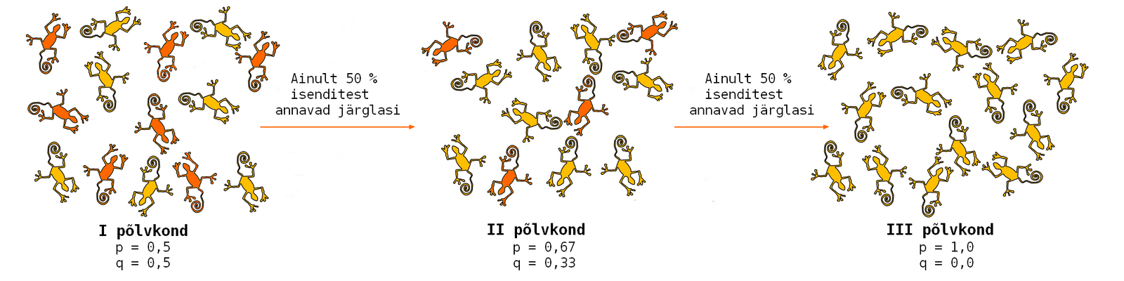 Example of genetic drift